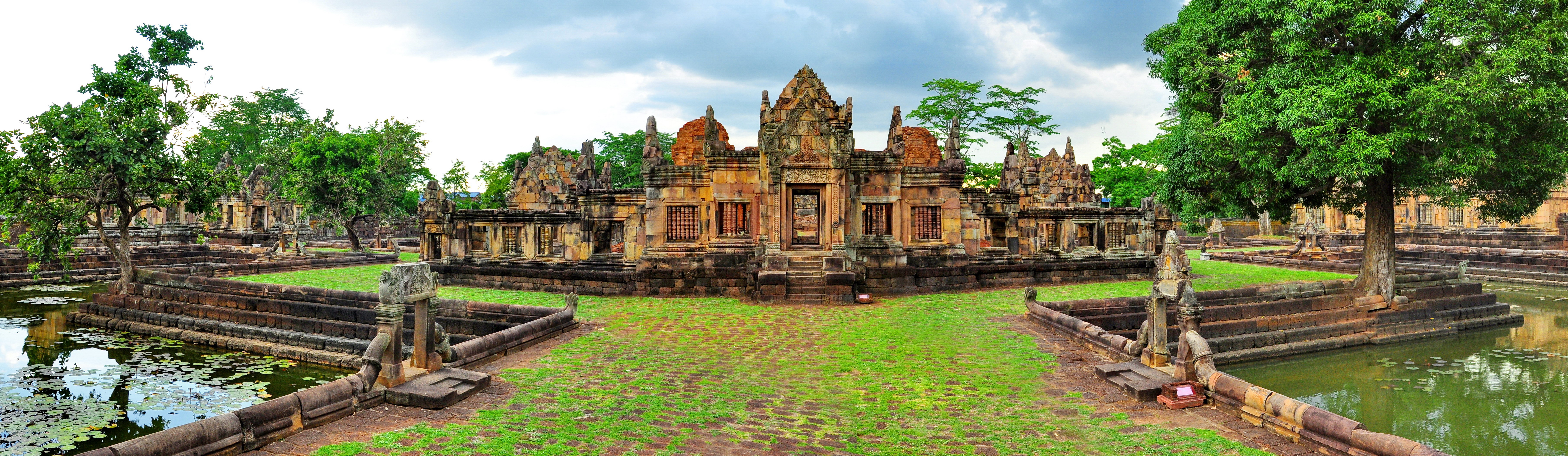 Prasat Muang Tam